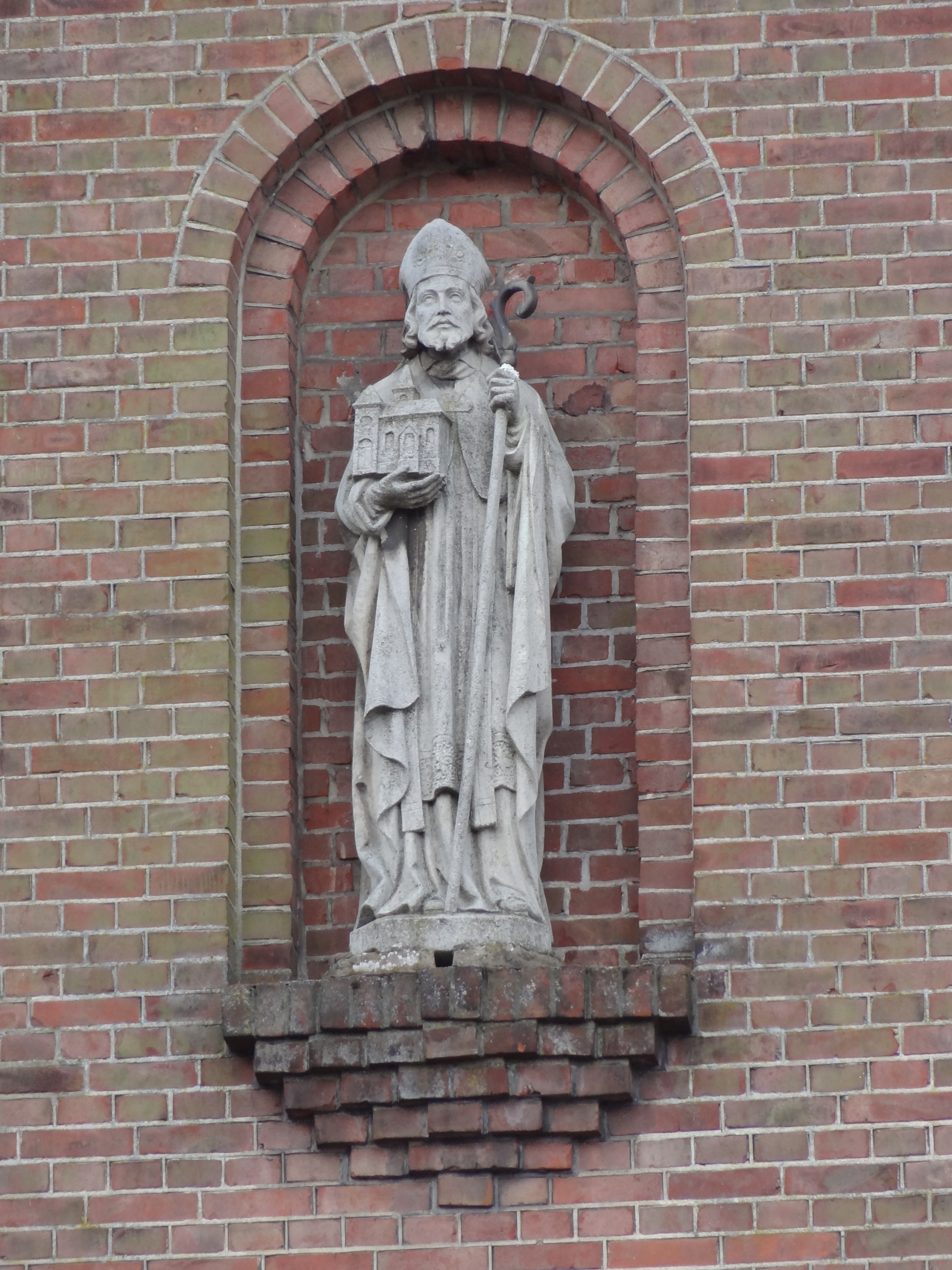 Statue of Saint Plechelm at the tower of Saint Plechelm's church at the Plechelmusstraat in De Lutte, The Netherlands